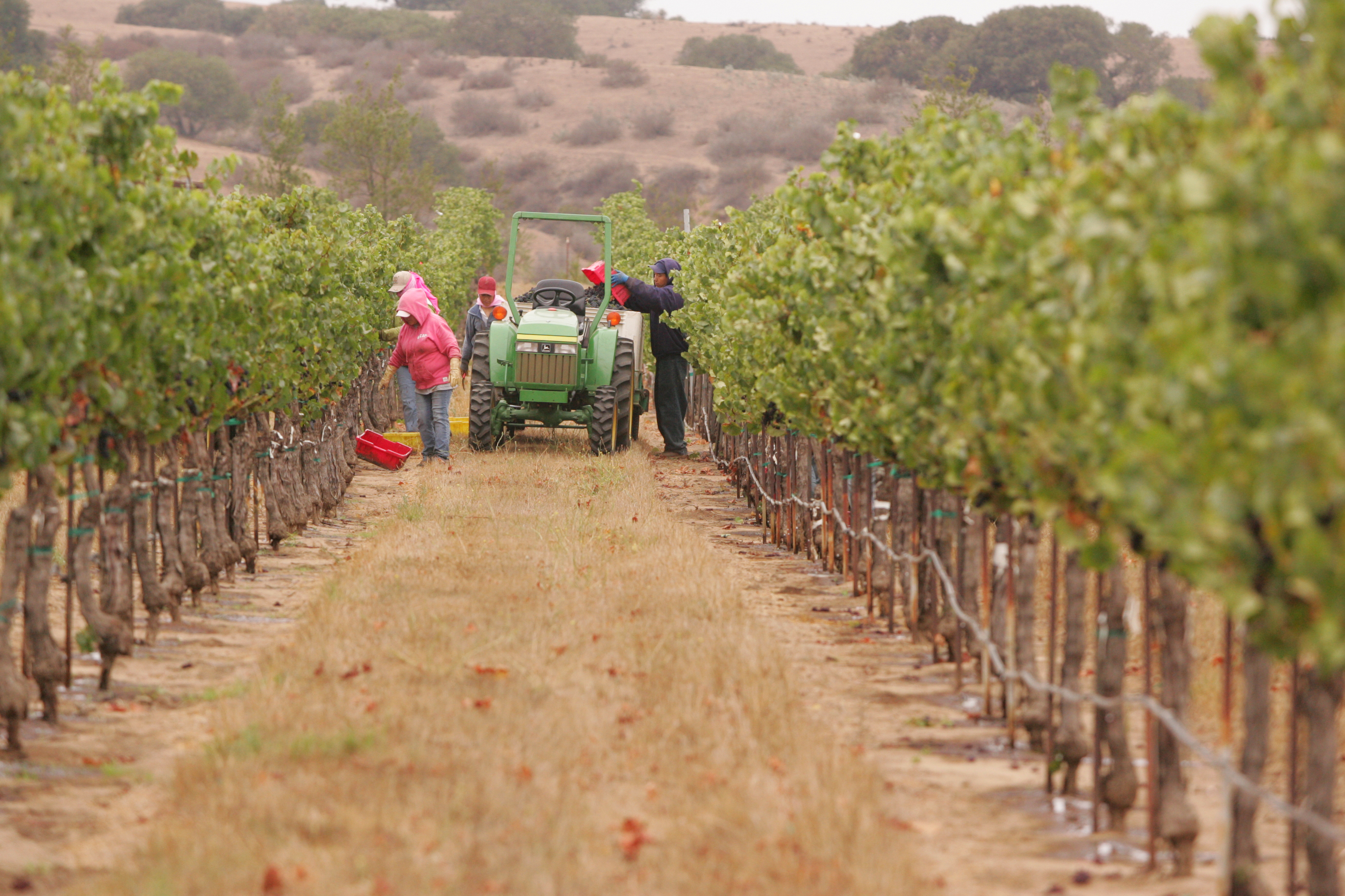 Vineyard in Central Coast California showing typical spacing between vine rows to accommodate tractors for harvest and spraying.